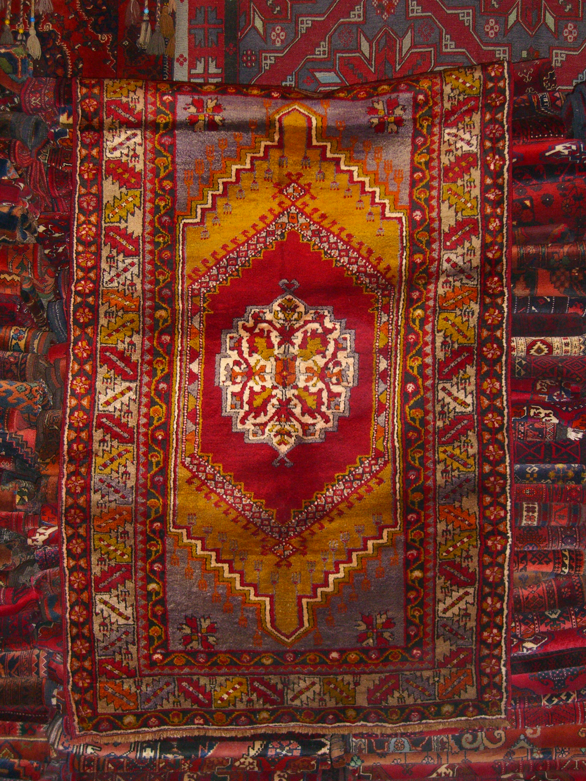 Vintage Central Anatolian Tribal Rug. CL Lane Collection.